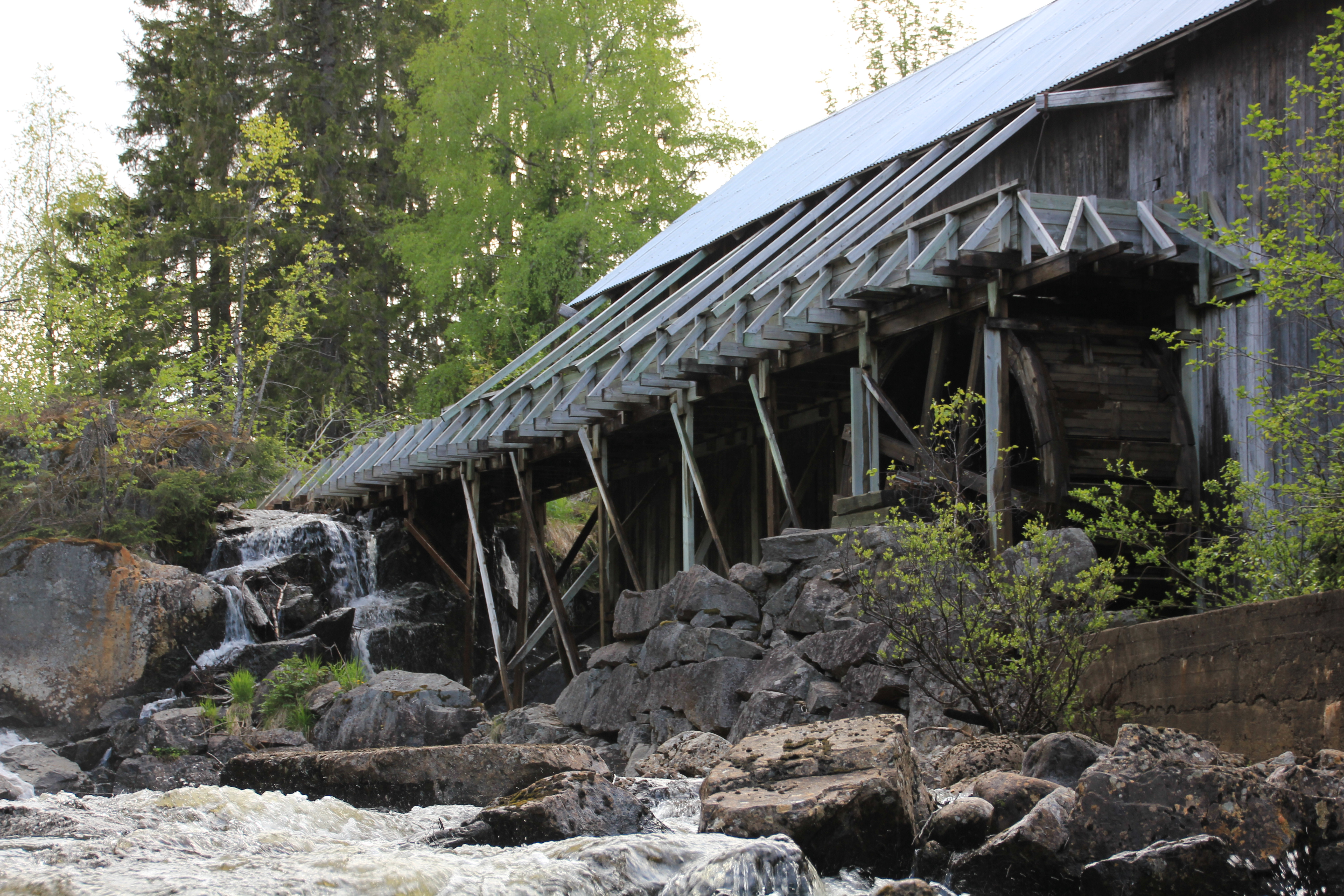 The old sawmill Rognlisaga at Hurdal, Akershus, Norway, by Høverelva River. The saw is run by a water wheel. Rognlisaga i Hurdal.